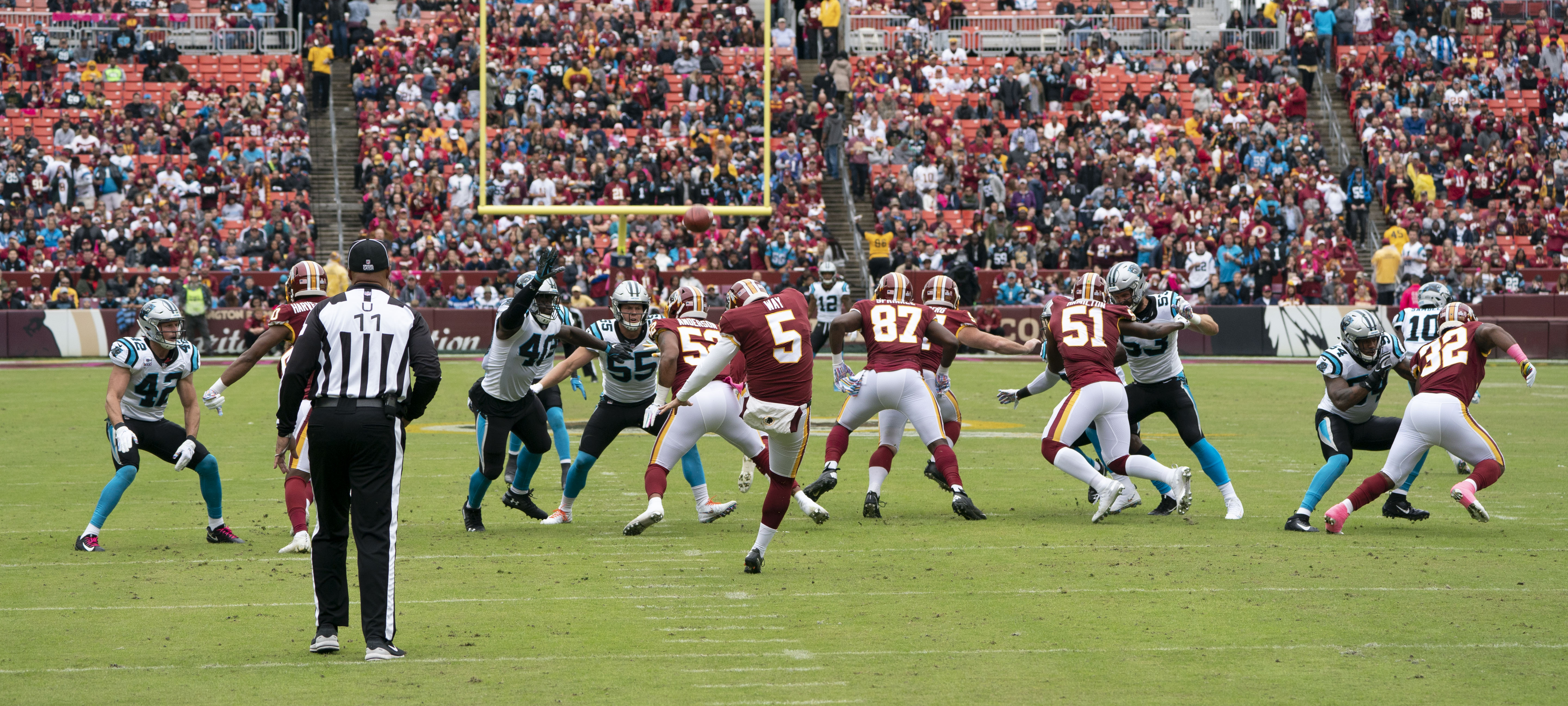 Tress Way of the Washington Redskins punts to the Carolina Panthers during a 2018 game at FedEx Field